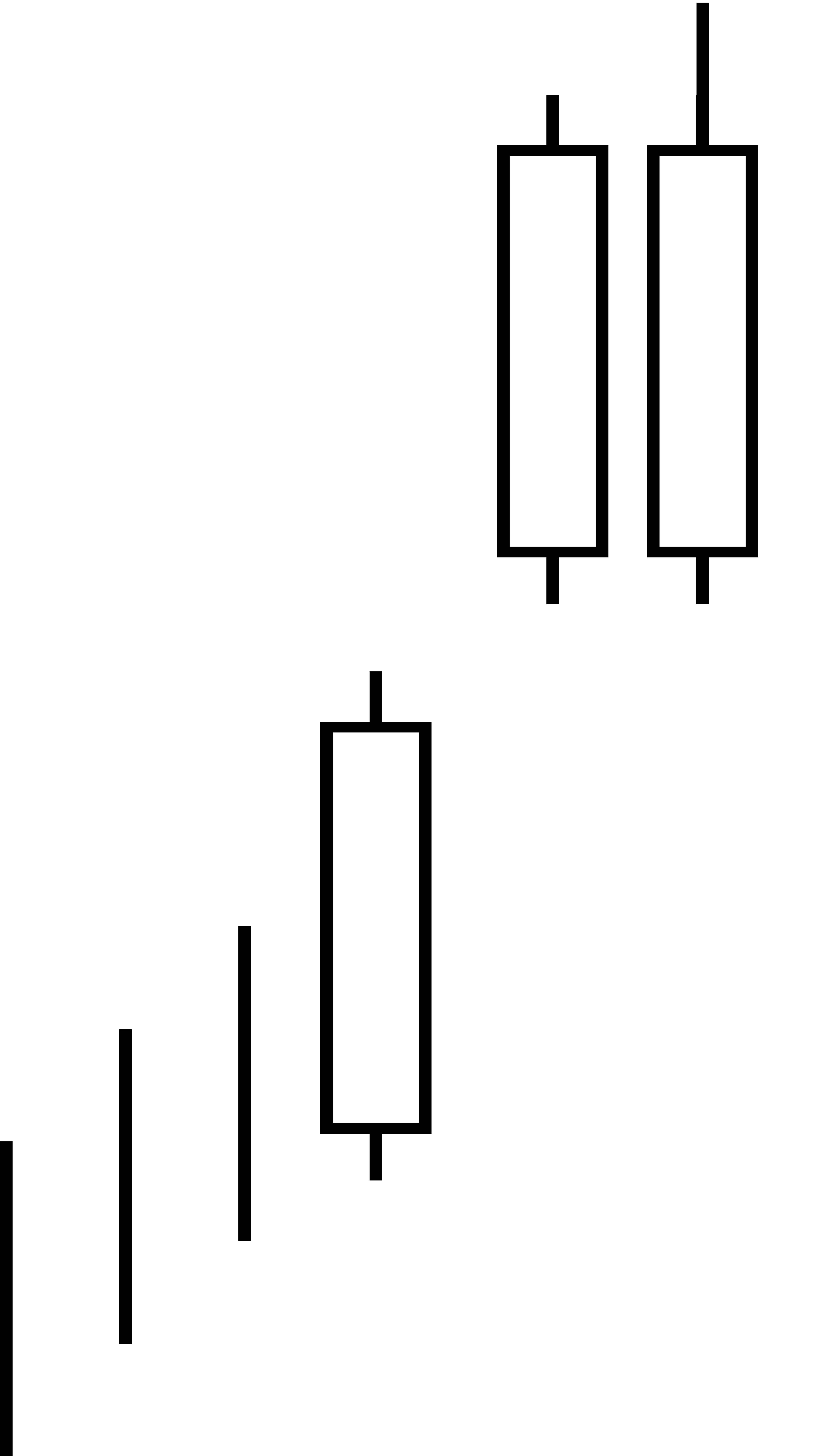 Bullish Side-by-side White Lines